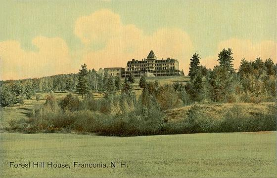 Forest Hill House, Franconia, NH; from a c. 1909 postcard.